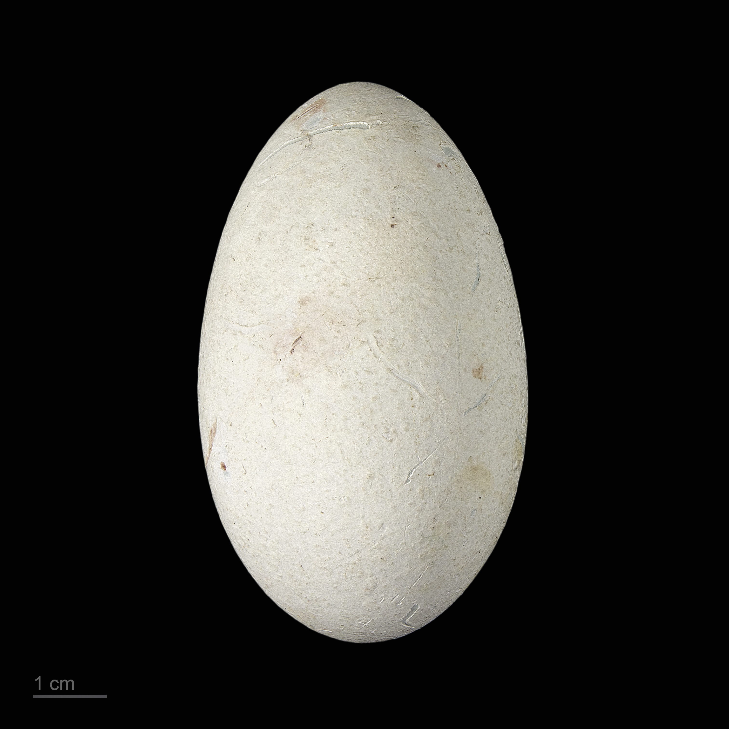 Eggs of red-footed booby Two specimens of the same spawn ; collection of Jacques Perrin de Brichambaut.